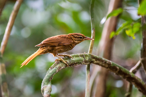 "Trepador-sobrancelha (Cichlocolaptes leucophrus) fotografado em Linhares, Espírito Santo - Sudeste do Brasil. Bioma Mata Atlântica. Registro feito em 2013. ENGLISH: Pale-browed Treehunter photographed in Linhares, Espírito Santo - Southeast of Brazil. Atlantic Forest Biome. Picture made in 2013."